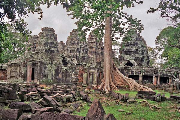 Banteay Kdei. Angkor. Cambodia